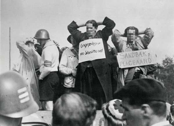 Danes who had helped the Gestapo during the occupation are driven through the streets on open vans for public humiliation after being arrested by the resistance. The signs says "Fangeplager fra Shellhuset" and "Sandbæk, Plageaand"